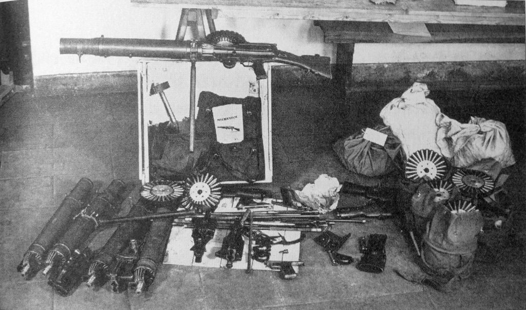 Lewisgun, parts, magazines and ammunition confiscated by the Swedish Customs on the nowegian Kvarstad-vessels Dicto and Lionel i Gothenburg harbour 1942.